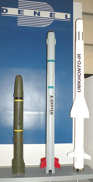 UMKHONTO-IR